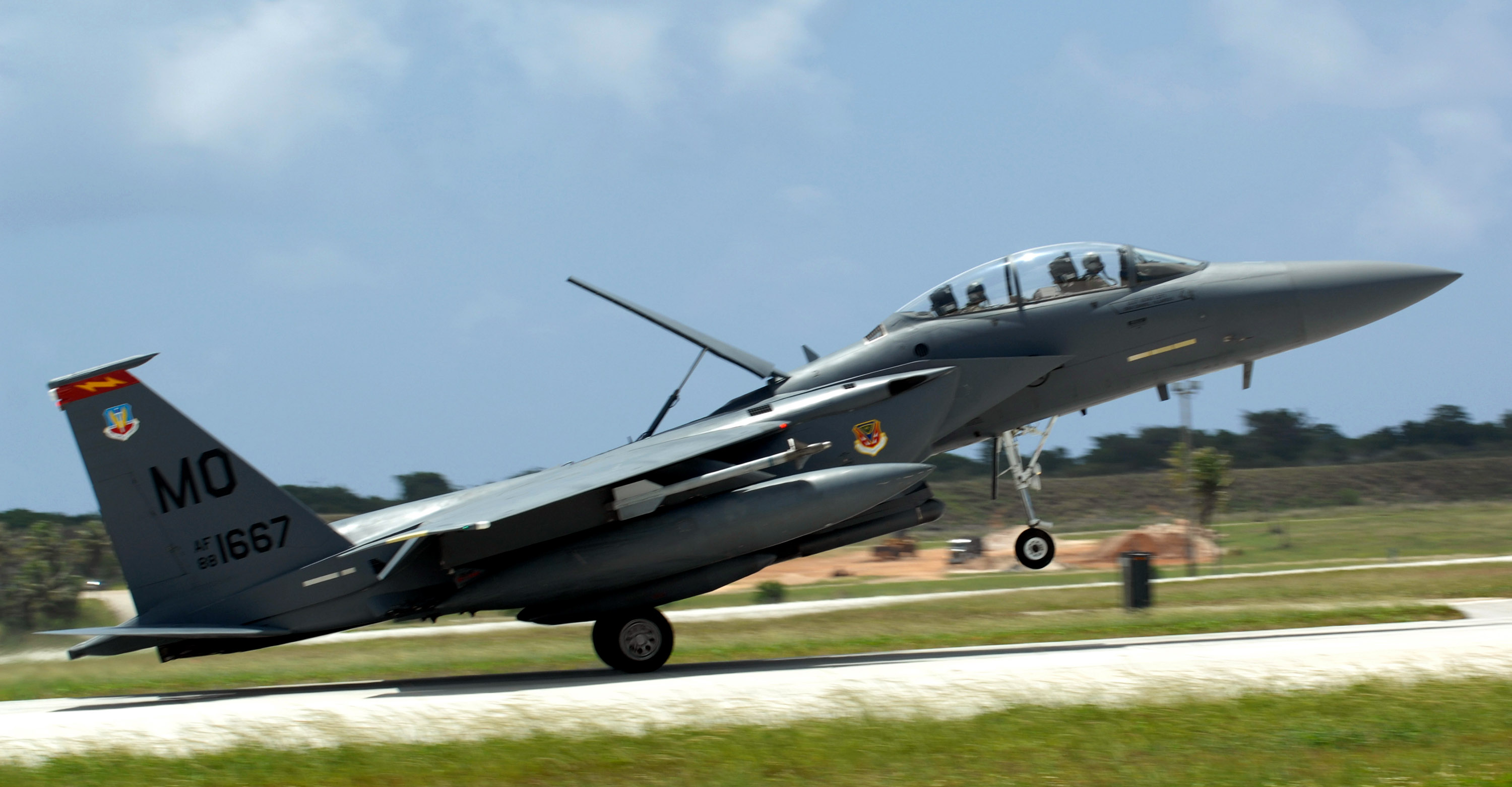 A McDonnell-Douglas F-15E Strike Eagle lands with airbrake up at Andersen AFB.